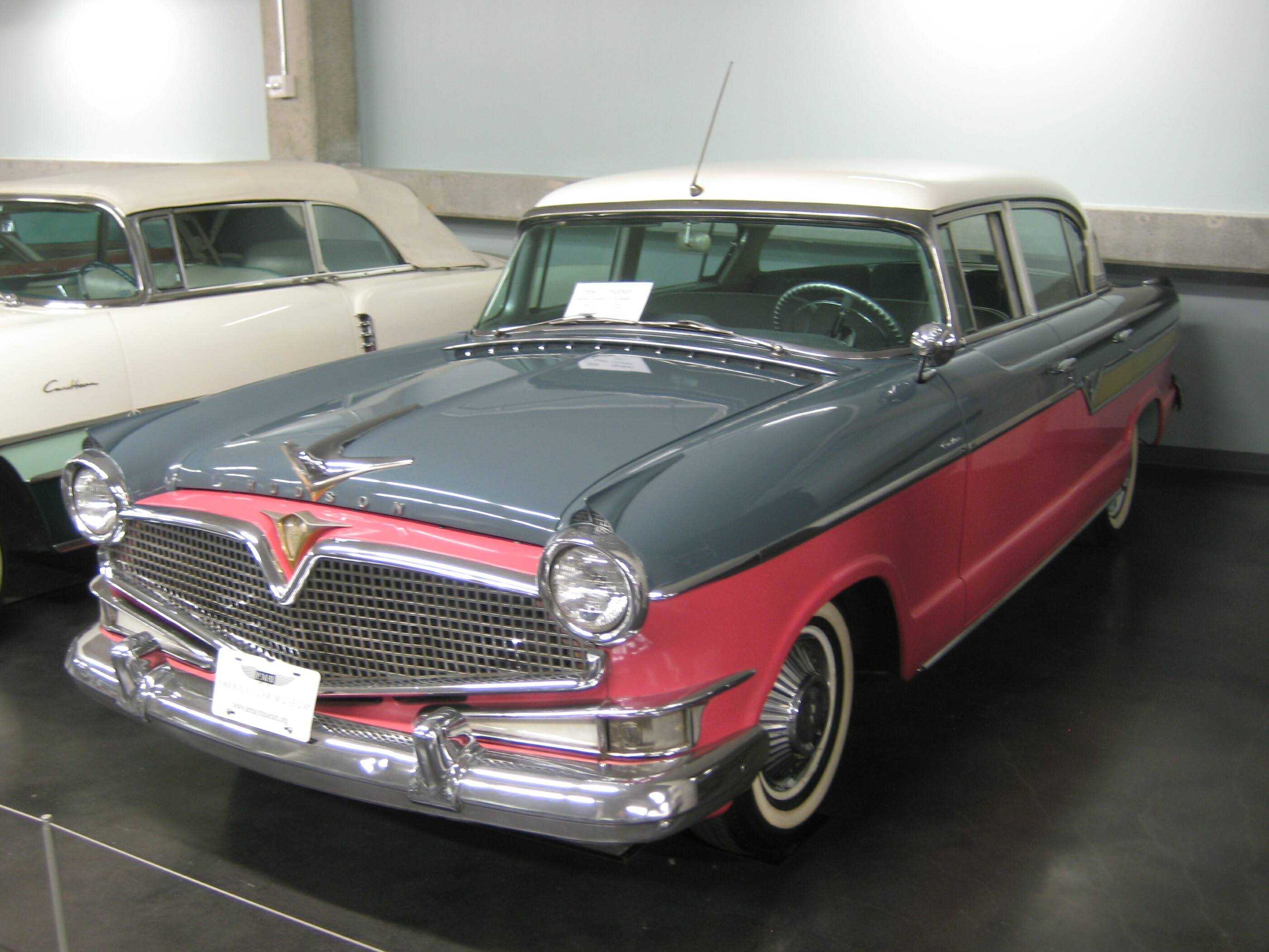 1956 Hudson Hornet Custom Four-Door Sedan. The cars are just too nice. I prefer a little grunge and realism with my old cars. The old LeMay Family Collection is just more fun.